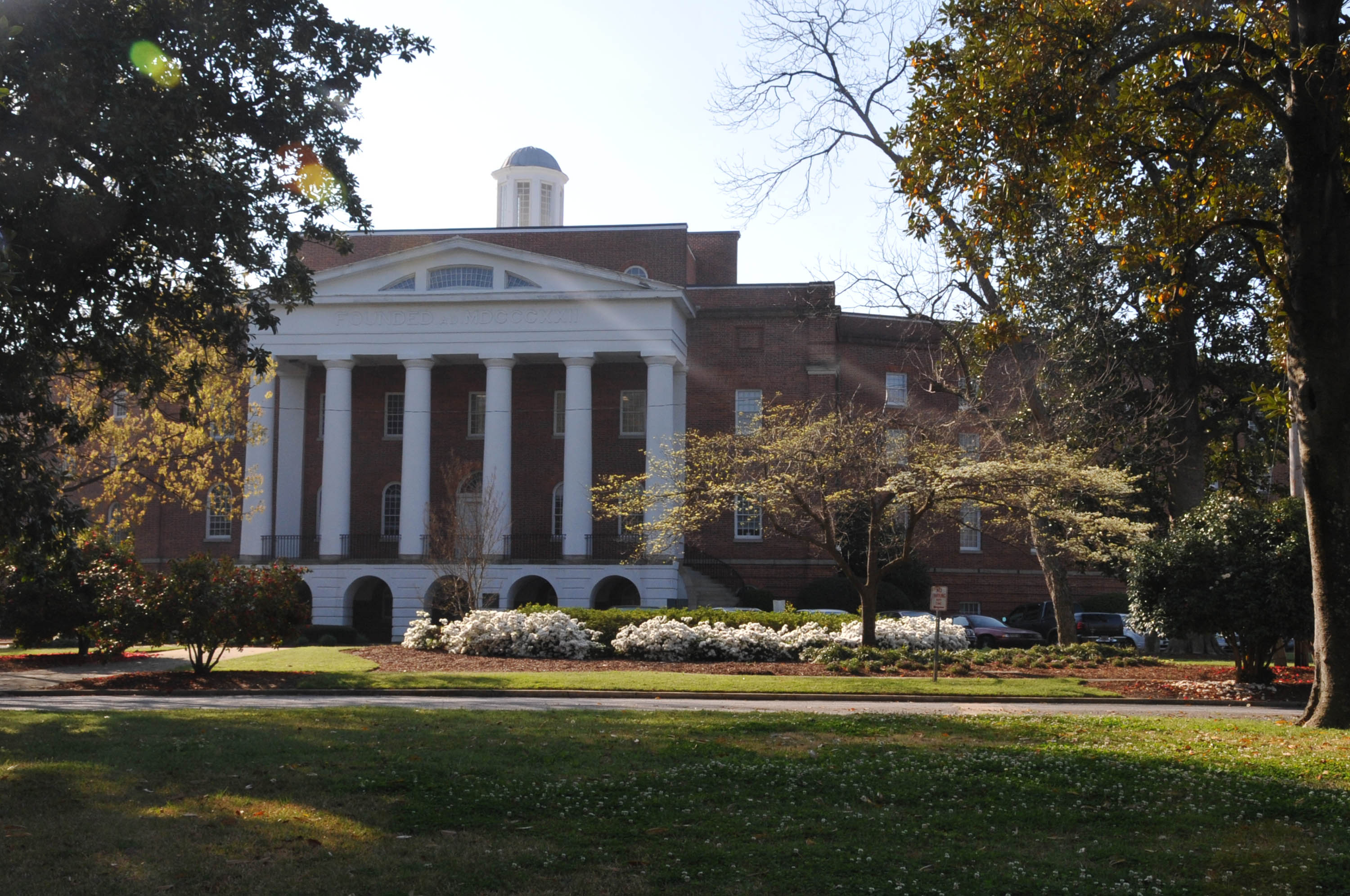 BUILDINGS BUILT BETWEEN 1822 AND 1827; THIS BUILDING STILL IS IN USE BUT NOT AS A MENTAL INSTITUTION